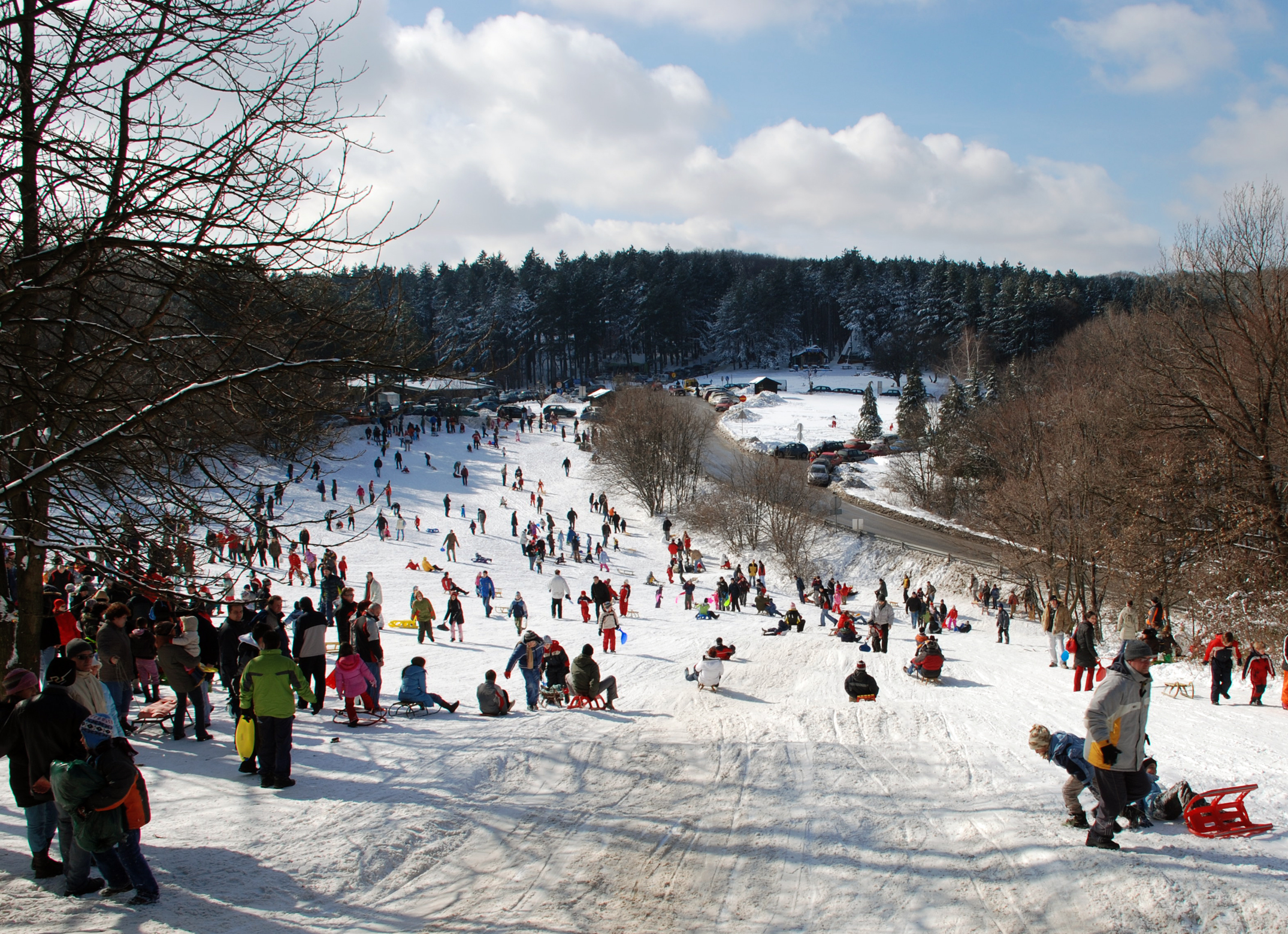 На раскрсници за Ириг, Змајевац најлепше је деци